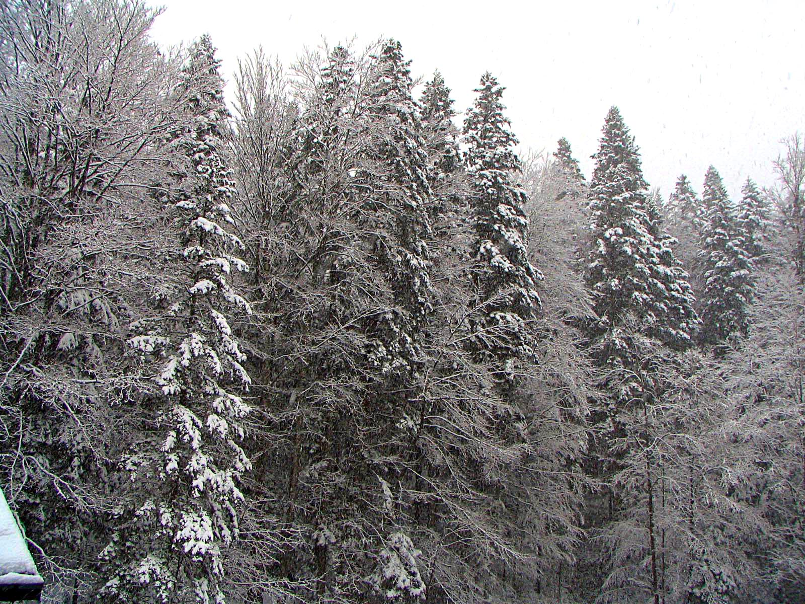 Abieto-Fagetum (Goc mountain, Serbia)